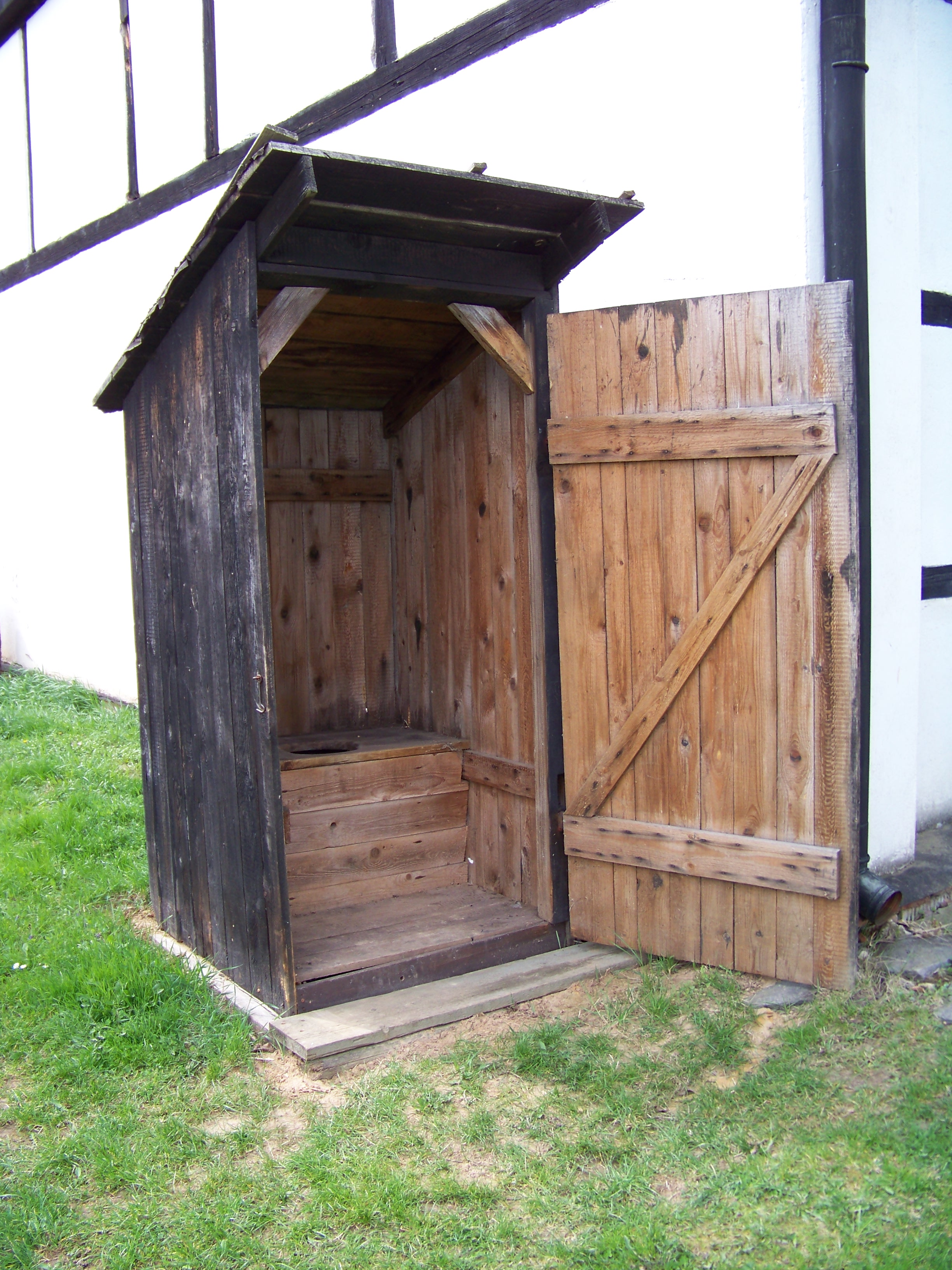 Kouřim, Kolín District, Central Bohemian Region, the Czech Republic. Open air museum. A toilet outhouse